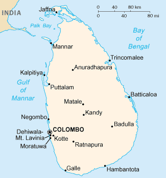 Map of Sri Lanka from the 2004 CIA Factbook (internet version)